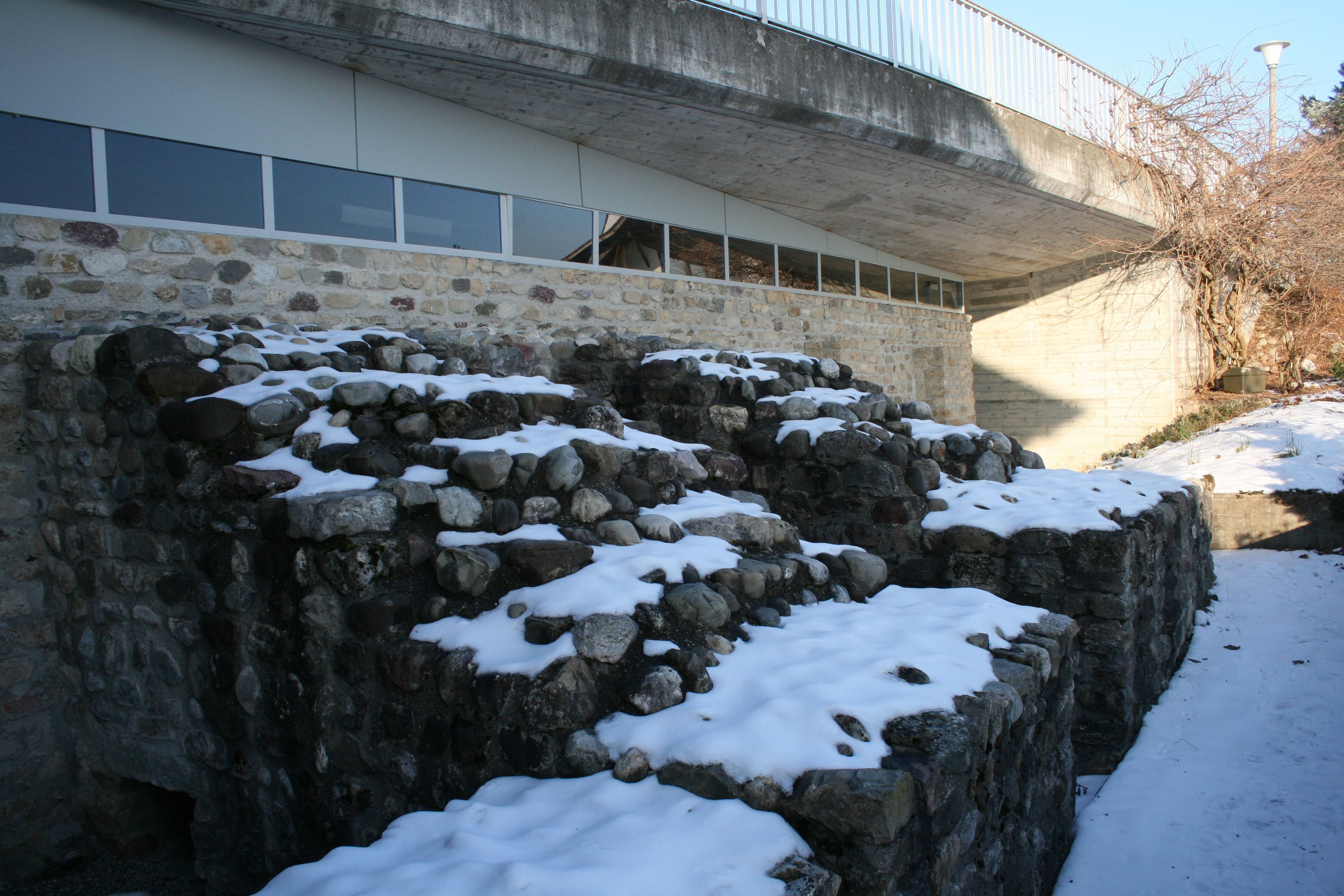 Roman Kryptoportikus at Buchs ZH, Switzerland